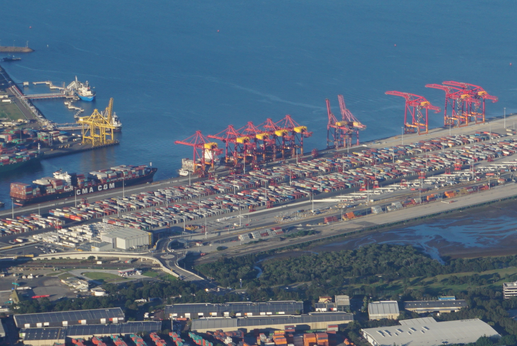 Port Botany, Sydney, Australia